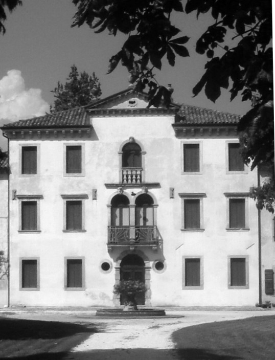 Roverbasso (TV)